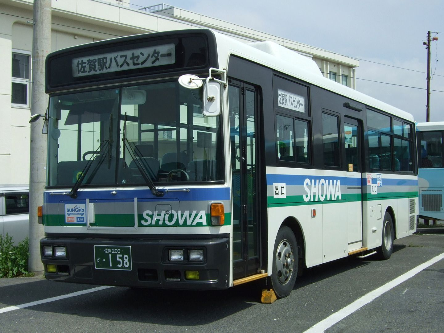 Showa bus. See below.